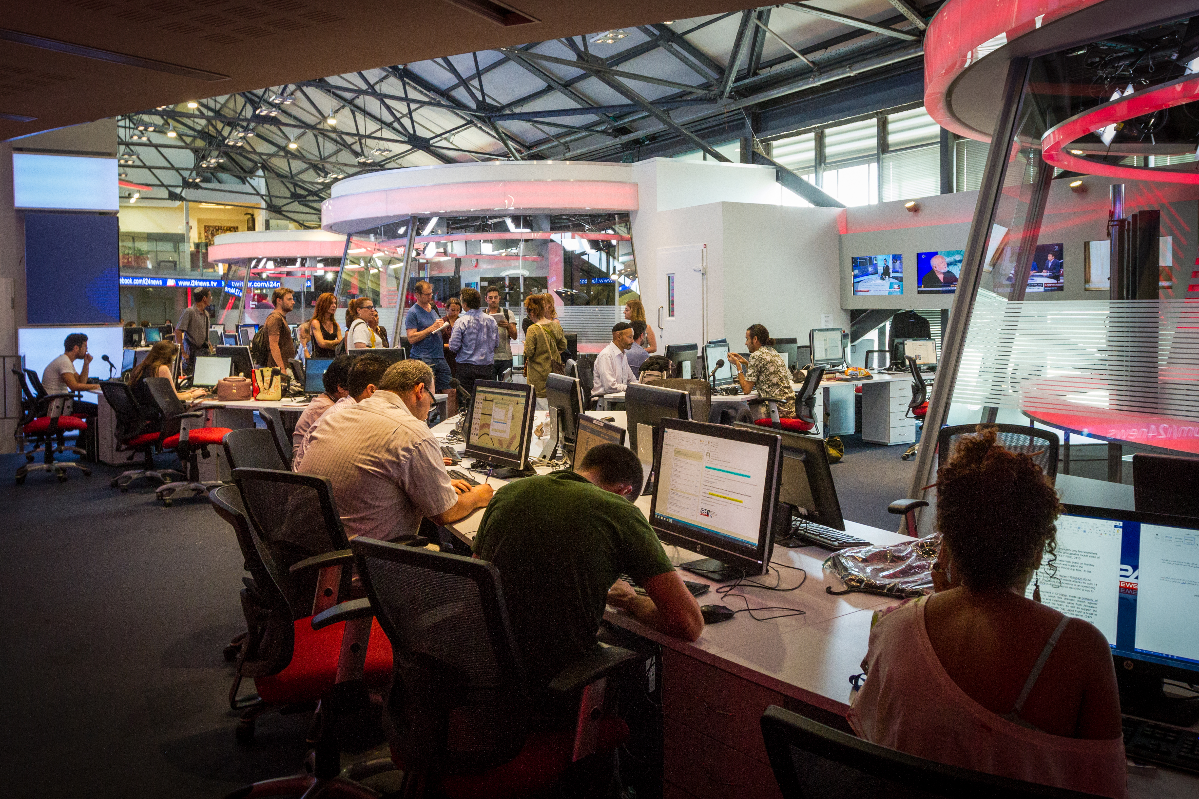 I24news Tel Aviv Yaffo 14 juillet 2014